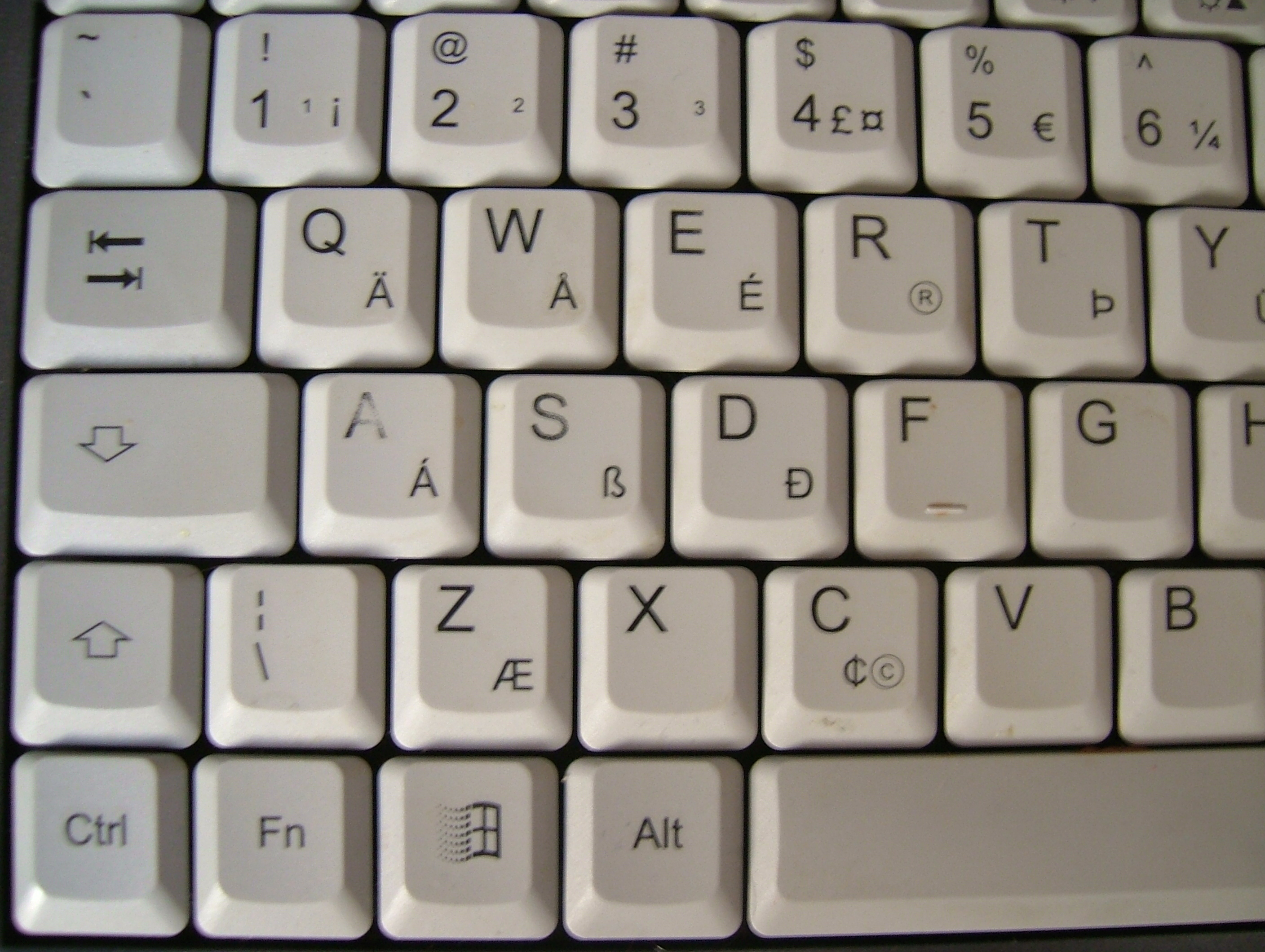 Left side of a ISO/IEC 9995 US-International keyboard. Showing ¡ (¹), ², ³, ¤ (£), €, ¼, ä (Ä), å (Å), é (É), ®, þ, á (Á), ß, ð (Ð), æ (Æ) and © (¢) available using AltGr + (Shift) + 1, 2, 3, 4, 5, 6, q, w, e, r, t, a, s, d, z and c respectively.